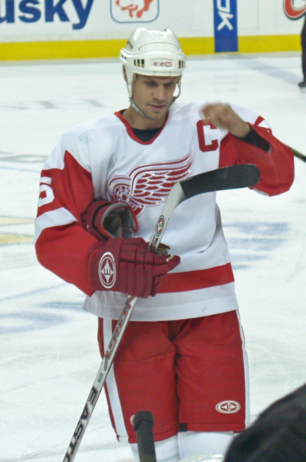 Nicklas Lidstrom of the Detroit Red Wings in Calgary, Alberta, November 17, 2006. Author is James Teterenko (uploader).